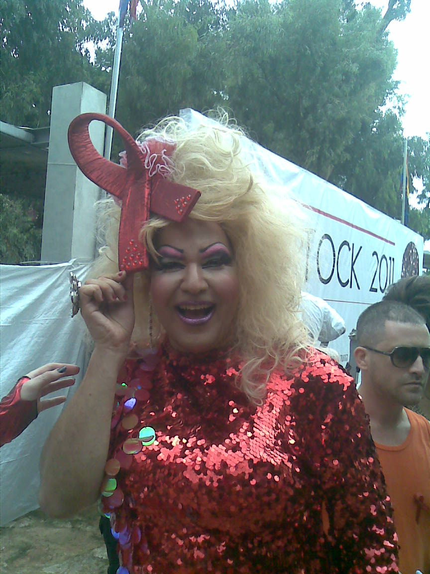 Ziona Patriot at Wigstock 2011, Gan Meir, Tel Aviv